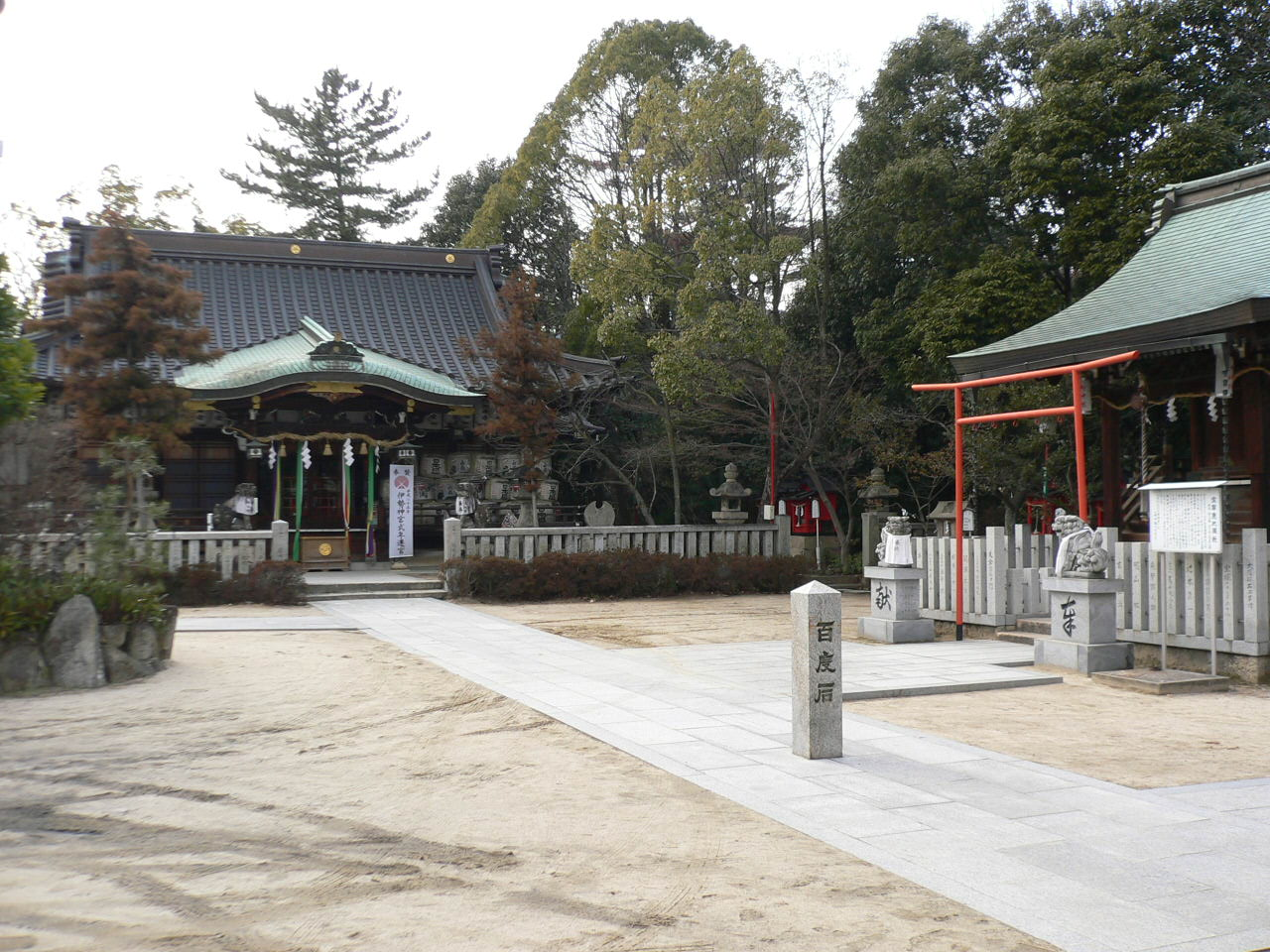 Takarazuka Jinja (Shrine) at Hyōgo Prefecture in Japan.